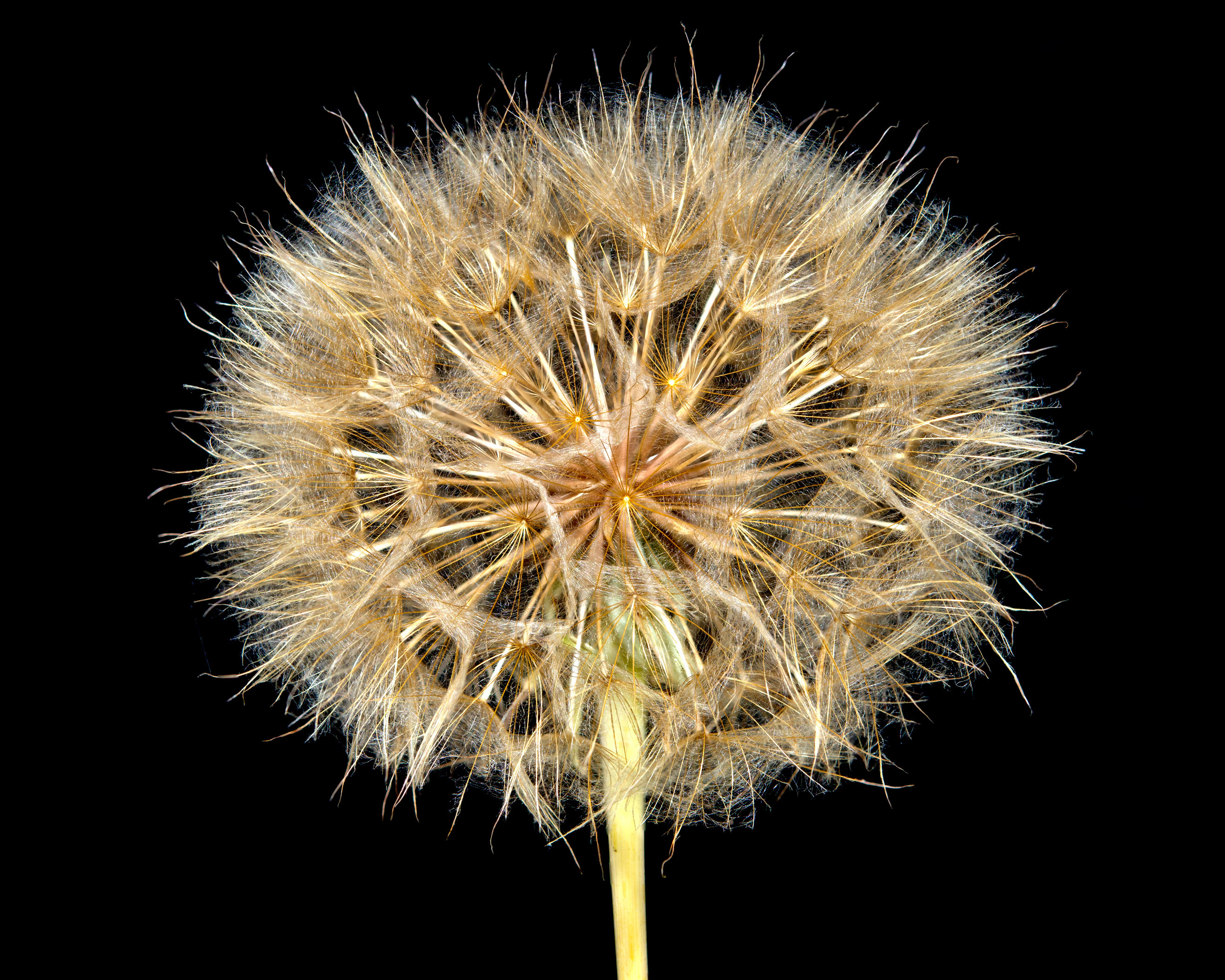 T. porrifolius Seed Bloom Common Salsify